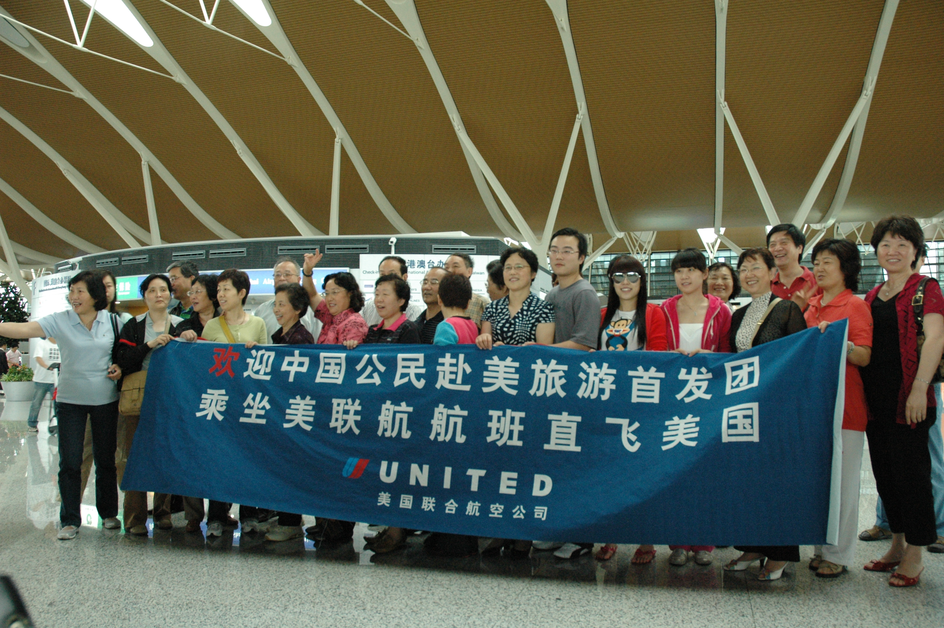 Sending off the first official Chinese tour group to the U.S. following the new U.S.-China group travel agreement. They flew United!